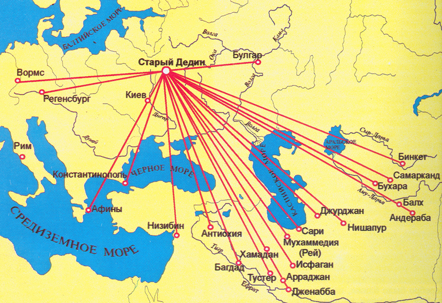 map showing places of origin of coins from a treasure from Stary Dzedzin